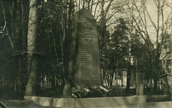 Grave of the German soldiers killed in the 1918 Finnish Civil War Battle of Hyvinkää.